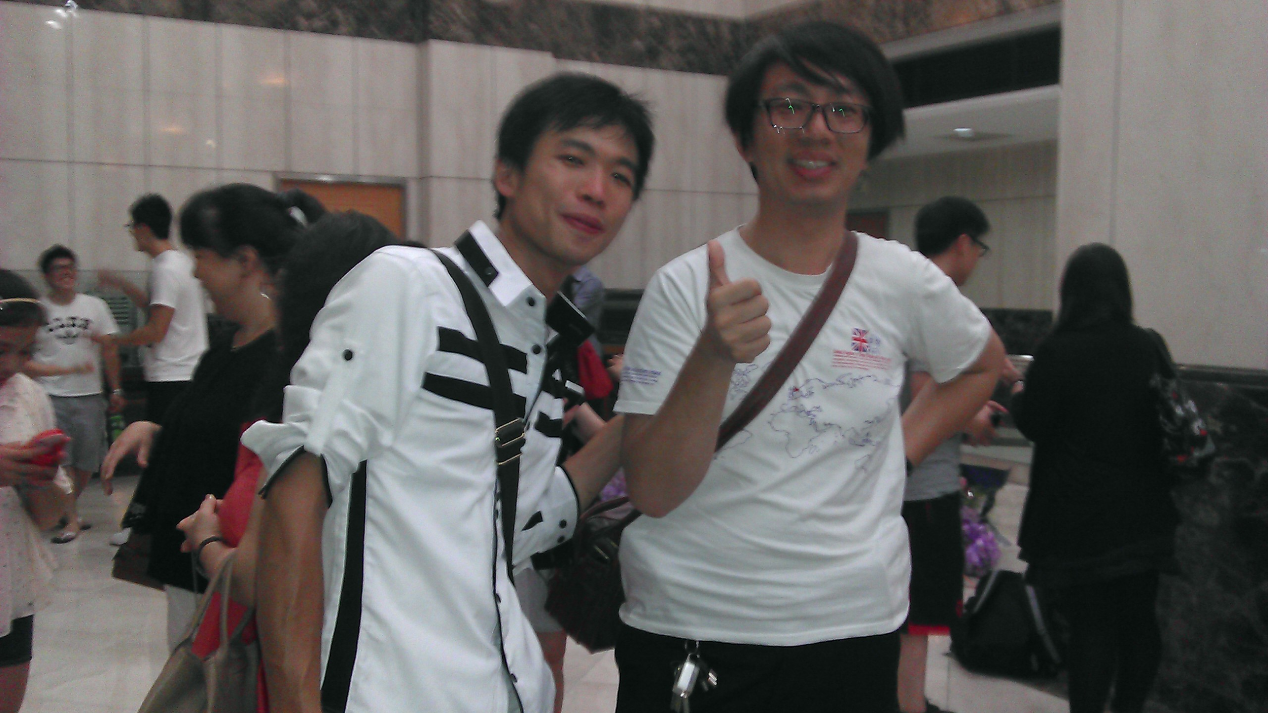 The competitors Siwei Chen of the TV show Super Star: I Want to Be A Singer, with his fan.